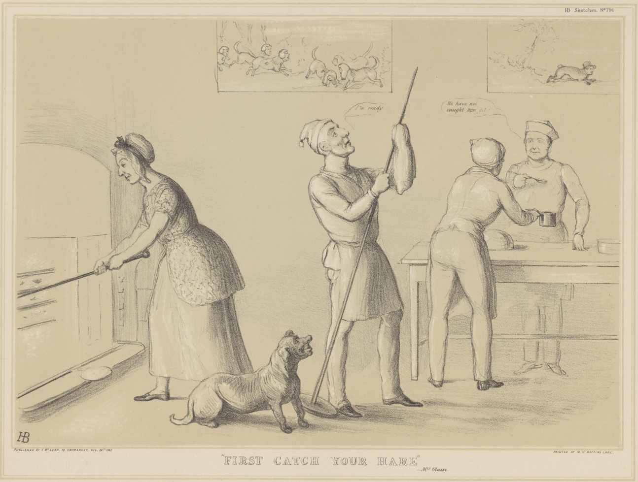 "FIRST CATCH YOUR HARE" -Mrs. Glasse. Text at top right:HB SKETCHES, No 791. Text in speech bubbles from left to right (spelling is as close to original as possible): Man cleaning spike: I'm ready Man with spoon: We have not caught him yet! Line at bottom left: PUBLISHED BY T.Mc. LEAN, 26. HAYMARKET, DEC. 26TH. 1843. Line at bottom right: PRINTED AT 70. ST. MARTINS LANE.